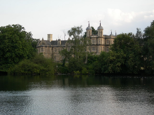 Snaresbrook Crown Court. Looking across Eagle Pond.